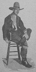 Jules Verne Allen was a singing cowboy and an early pioneer of country western music.